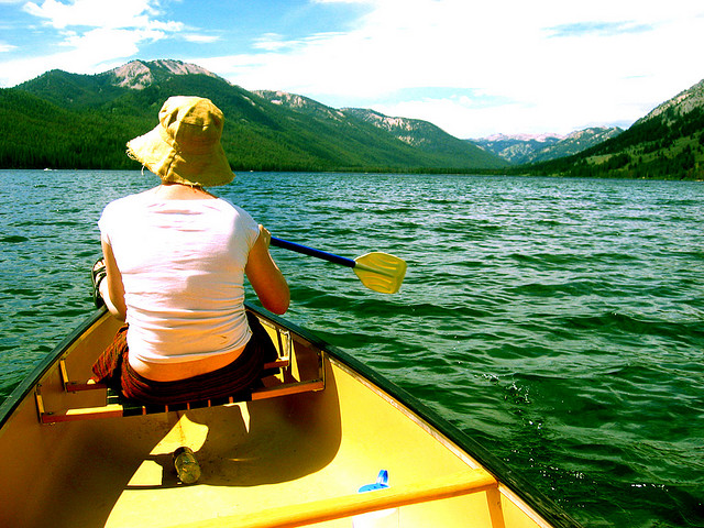 Jessa and I went paddling around Lake Alturas, located in the lovely Sawtooth Range of central Idaho.